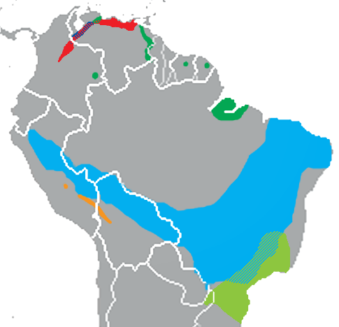 Composite range map of Gracilinanus, based on the maps of the species. Gracilinanus aceramarcae - yellow-orange Gracilinanus agilis - cyan Gracilinanus dryas - blue Gracilinanus emiliae - green Gracilinanus marica - red Gracilinanus microtarsus - pea green